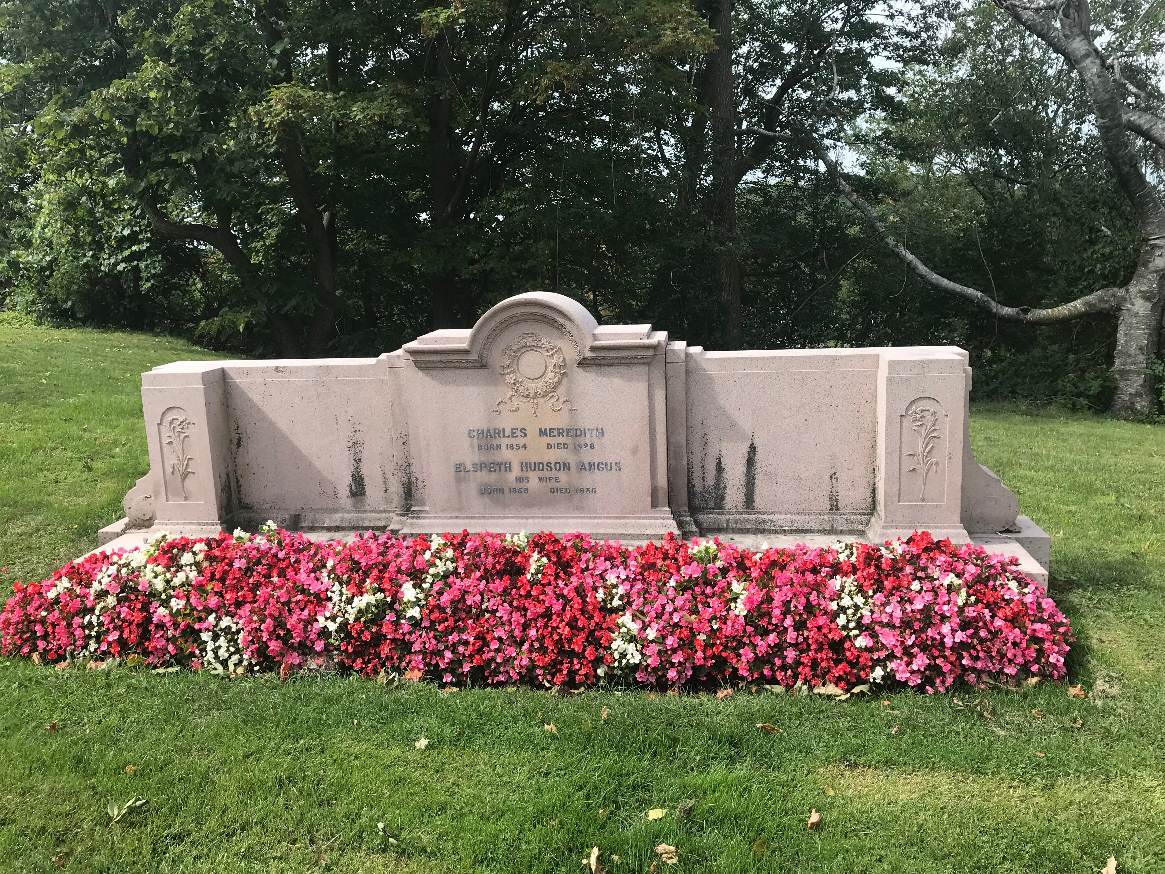 Funeral monument of Canadian businessman Charles Meredith, Mount Royal Cemetery, Montreal.